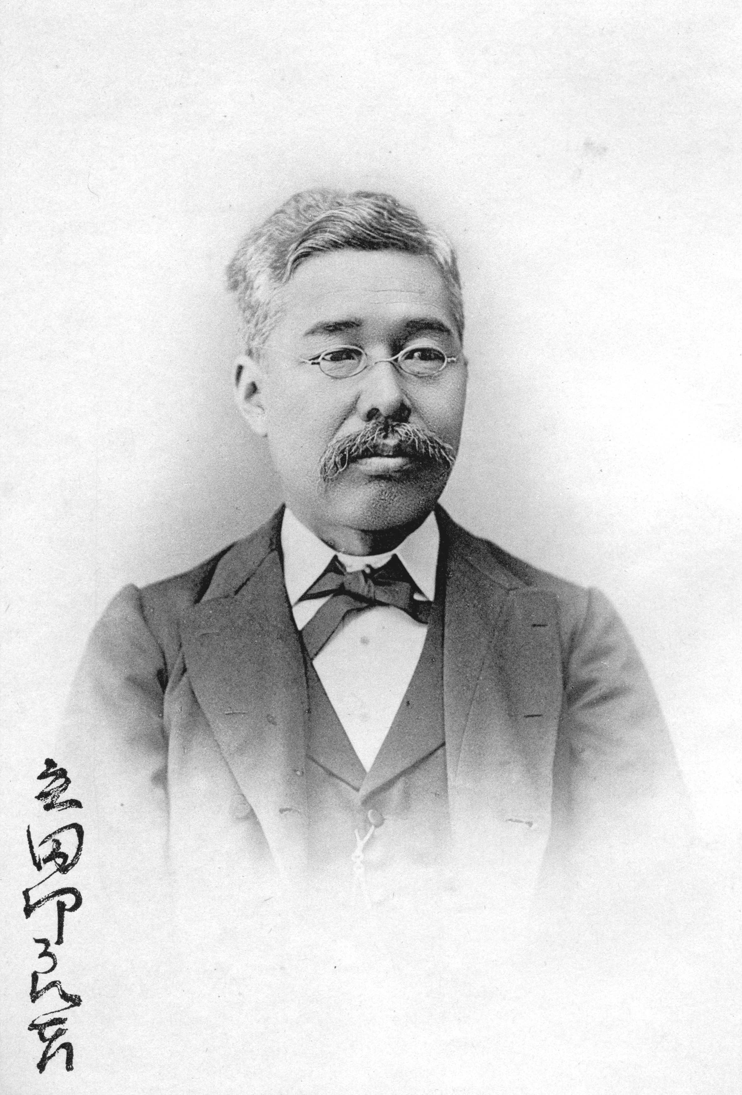 Portrait of Late Prof. R. Yatabe.